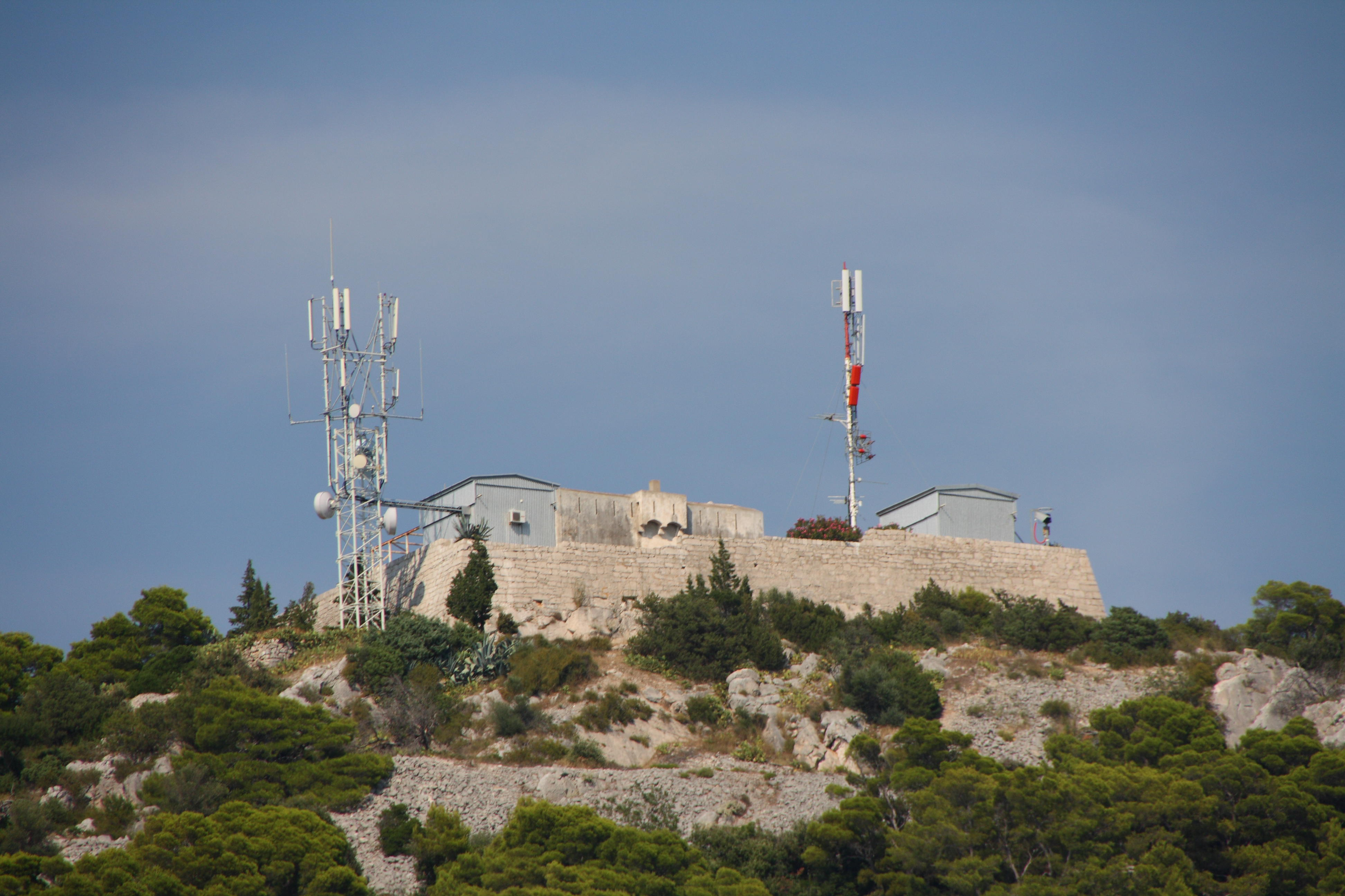 The fortress Napoleon, 228m above the city of Hvar. Today it´s an observatory.